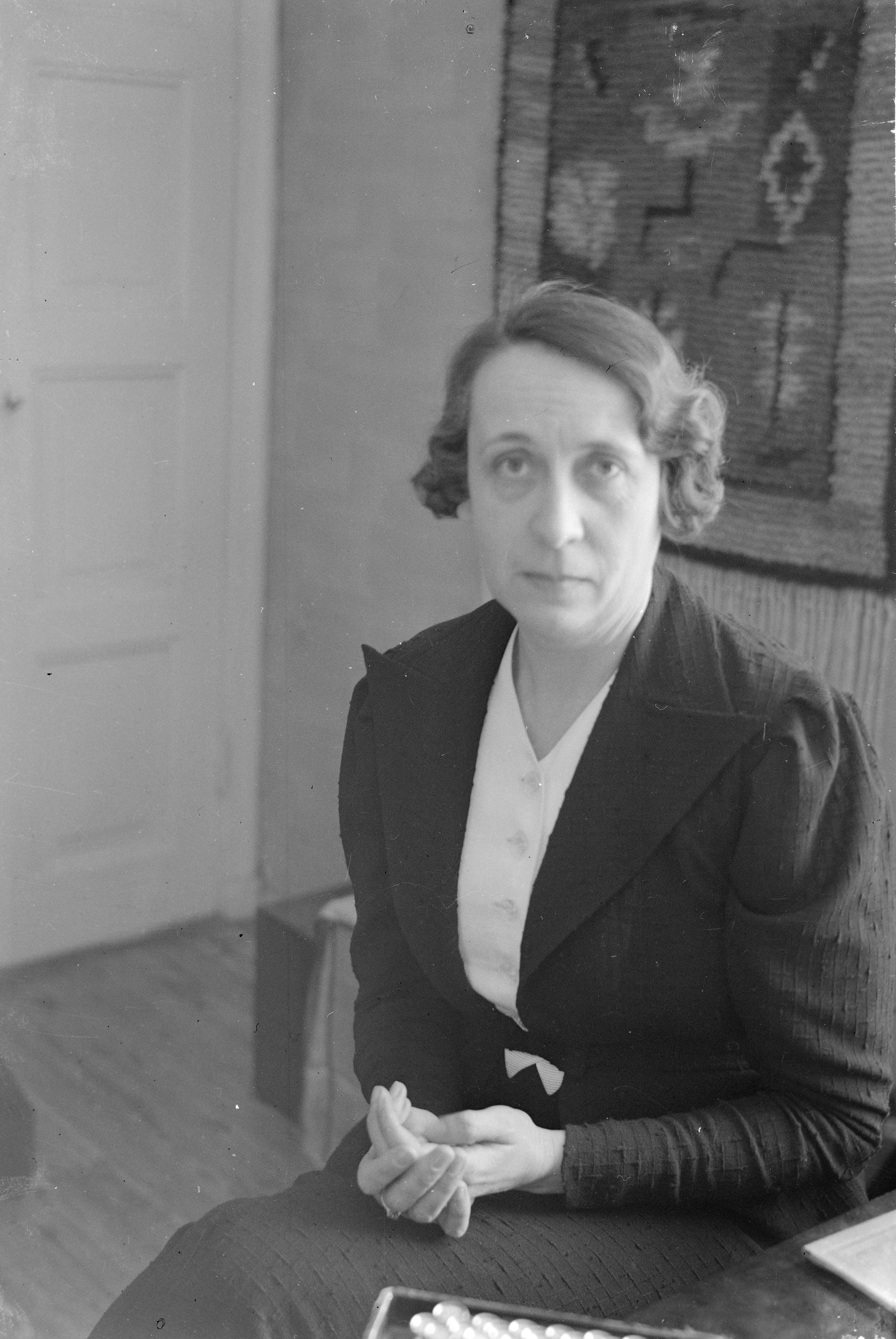 Photograph of the Finnish politician Sylvi-Kyllikki Kilpi (1899–1987).